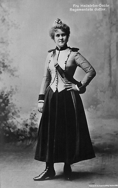 Anna Dorothea Oscár